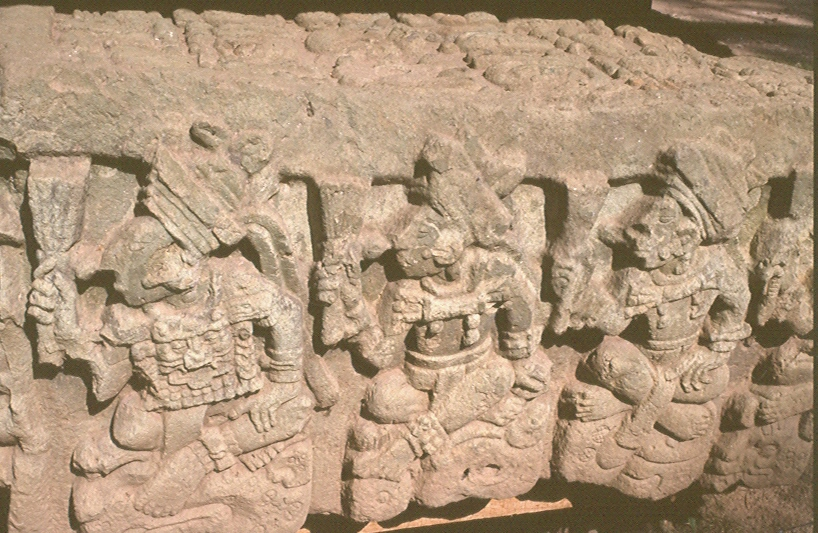 Maya Archeological site of Copán. Altar Q